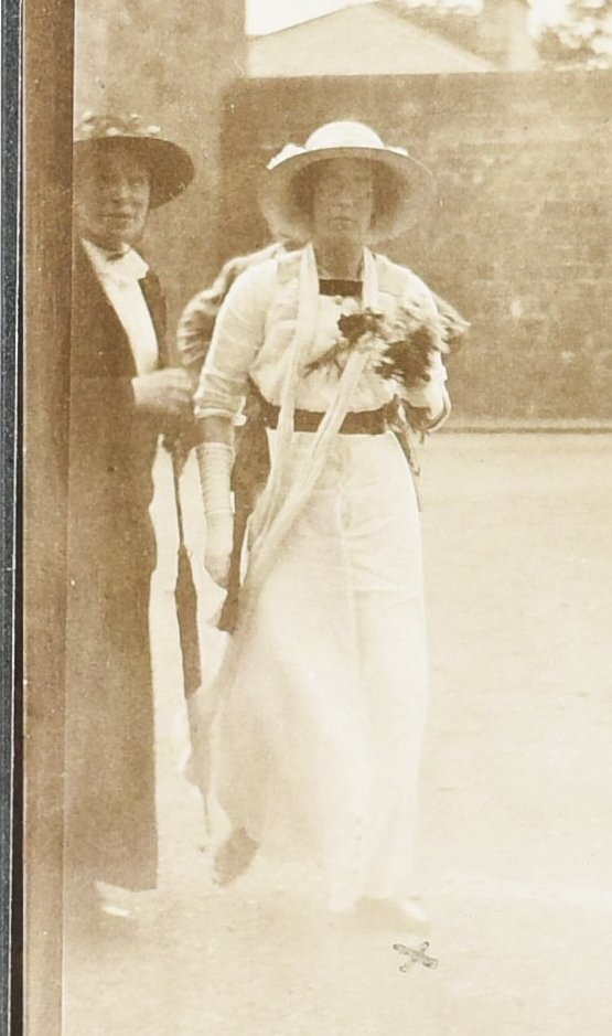 Maude Edwards, Suffragette prisoner. Miss Maude Edwards was tried at Edinburgh sheriff court on 3 Jul 1914, charged with "Wilfully and maliciously destroying a portrait of King George V" in the Royal Scottish Academy, Edinburgh on 23 May 1914. Having been found guilty, she received a 3 month prison sentence of which she served 11 days in HM Prison Perth. An article from the 'Edinburgh Evening Dispatch', 3 Jul 1914, details the 'Stormy Court Scenes' during the trial which was attended by a group of Suffragettes who had to be forcibly removed from the court. Medical reports written by H Ferguson Watson, Medical Officer at Perth prison, describe how Miss Edwards was forcibly fed during her incarceration. Miss Olive Walton, Organiser of the Dundee branch of the Women's Social and Political Union (WSPU) forwarded a copy of a medical certificate from Maude Edwards' personal doctor, dated 14 Apr 1914, stating that Miss Edwards had suffered from "a dilated heart, weak action, irregular rhythm and mitral murmur." It was advised that continued force feeding could be potentially harmful to Miss Edward's health. This was considered by HM Prison Commissioners for Scotland and J Grant, Governor at Perth prison, but it was agreed that artificial feeding could be continued. Maude Edwards pursued a claim of poor health and was finally liberated on license on 14 Jul 1914 under the Prisoners (Temporary Discharge for Ill Health) Act 1913, more commonly known as the Cat & Mouse Act. She signed a statement agreeing to "abstain from any militancy in violation of the law and from the organisation of or incitement to illegal acts." National Records of Scotland File HH16/47 includes: Photograph of Maude Edwards, no date, photographer unknown. It is out of copyright.